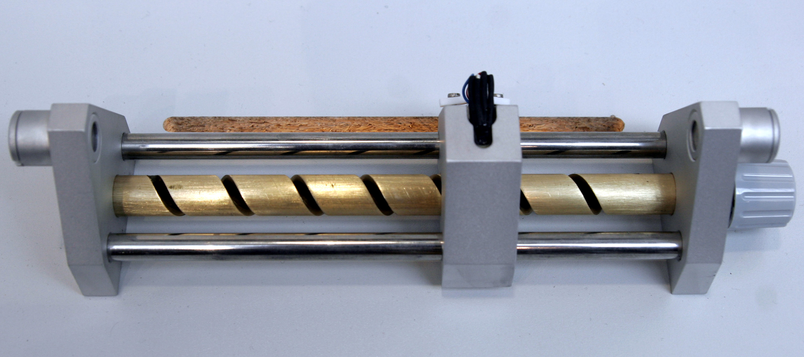 Replicate of the first GMR Sensor (black, on top of the slider on the bench, its position between two magnets can be changed) made by Peter Grünberg. The original one is in Deutsches Museum in Munich.